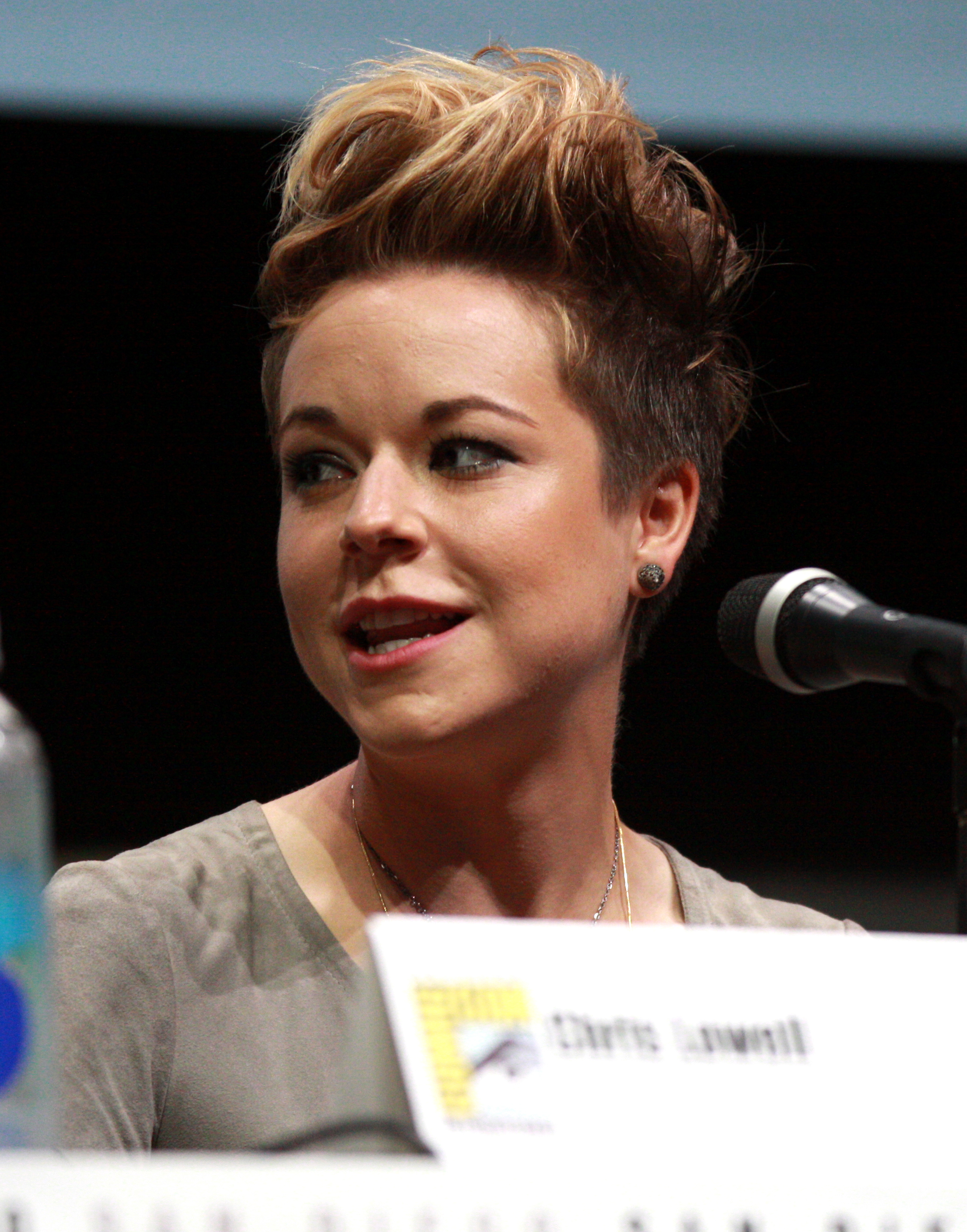 Tina Majorino at the 2013 San Diego Comic Con International in San Diego, California.